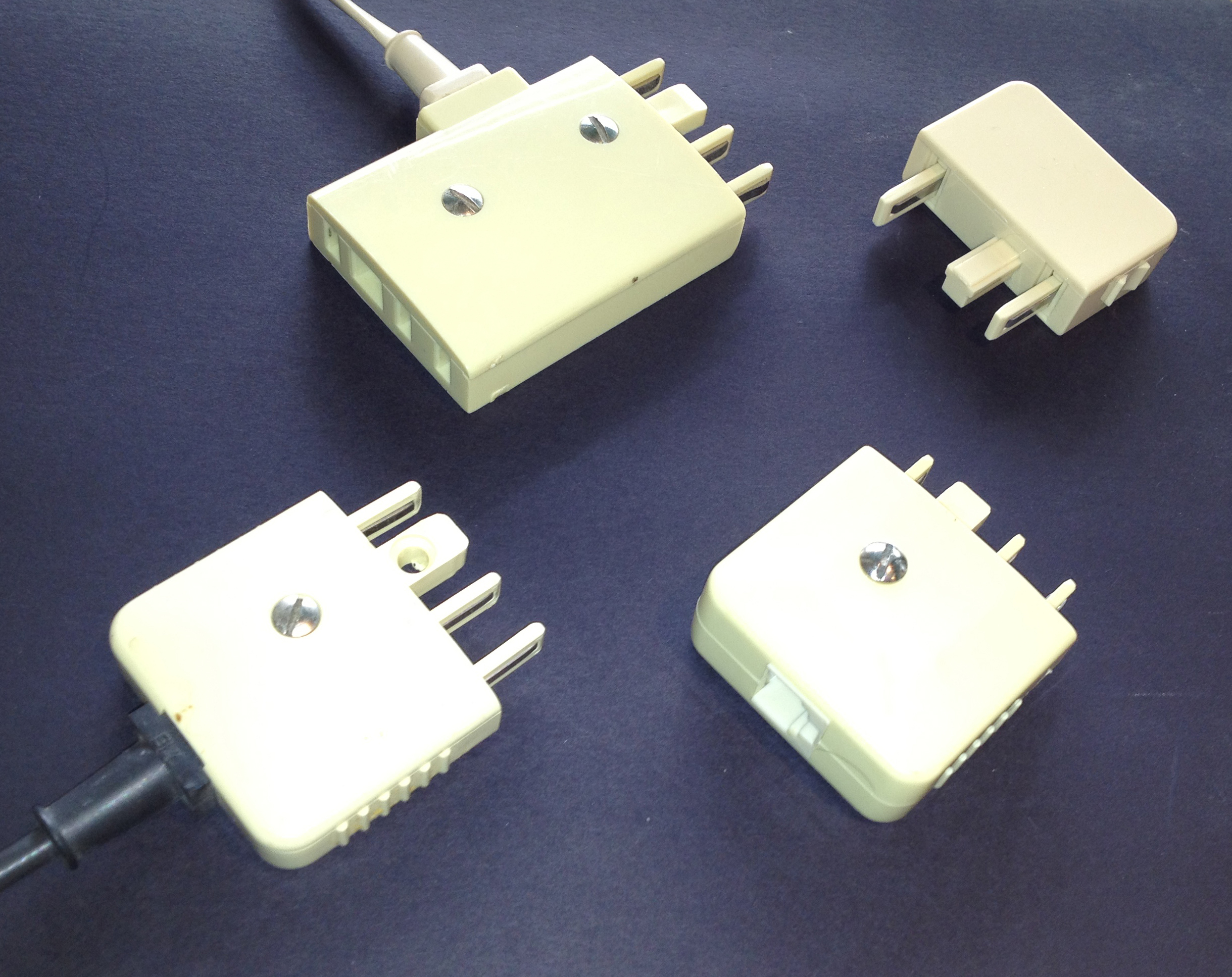 Some Australian 600 series connectors